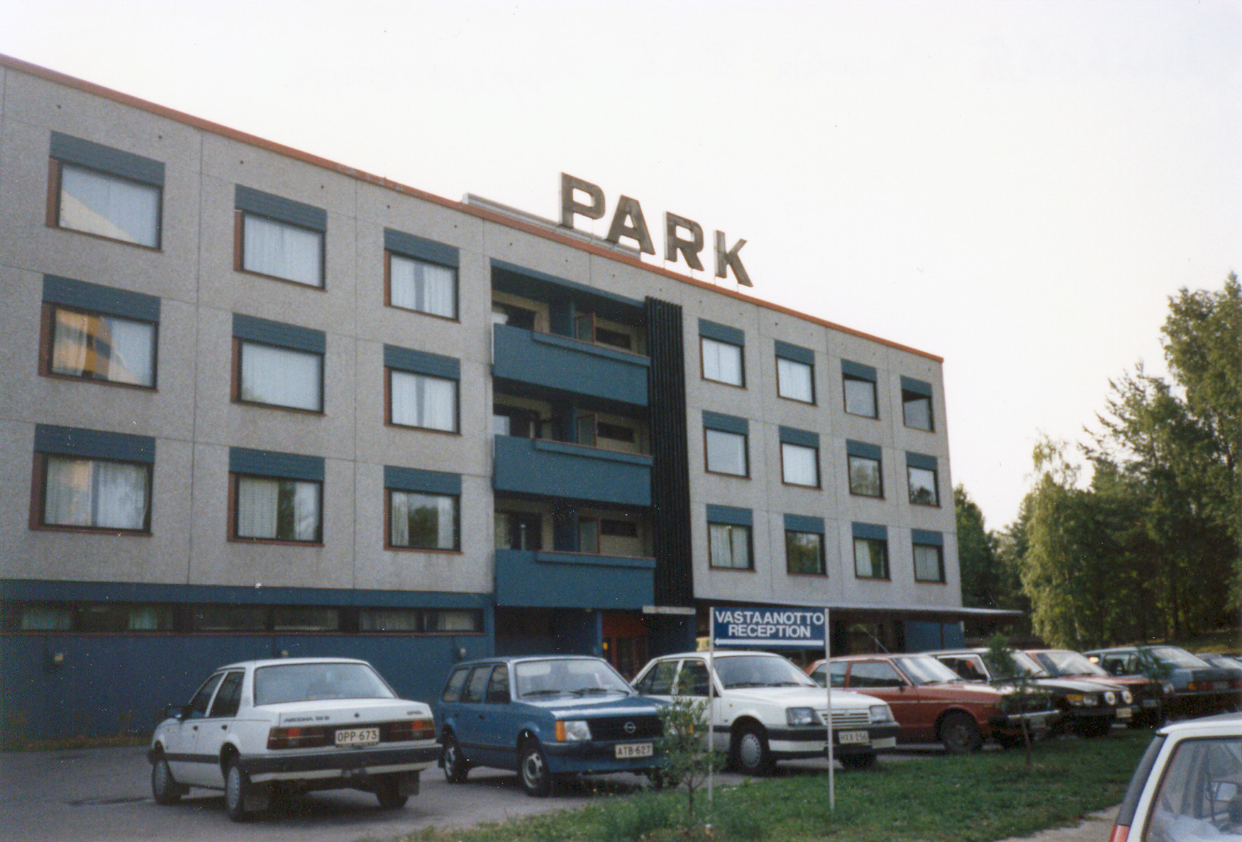 Hotel Carelia Park in Lappeenranta, Finland in 1989